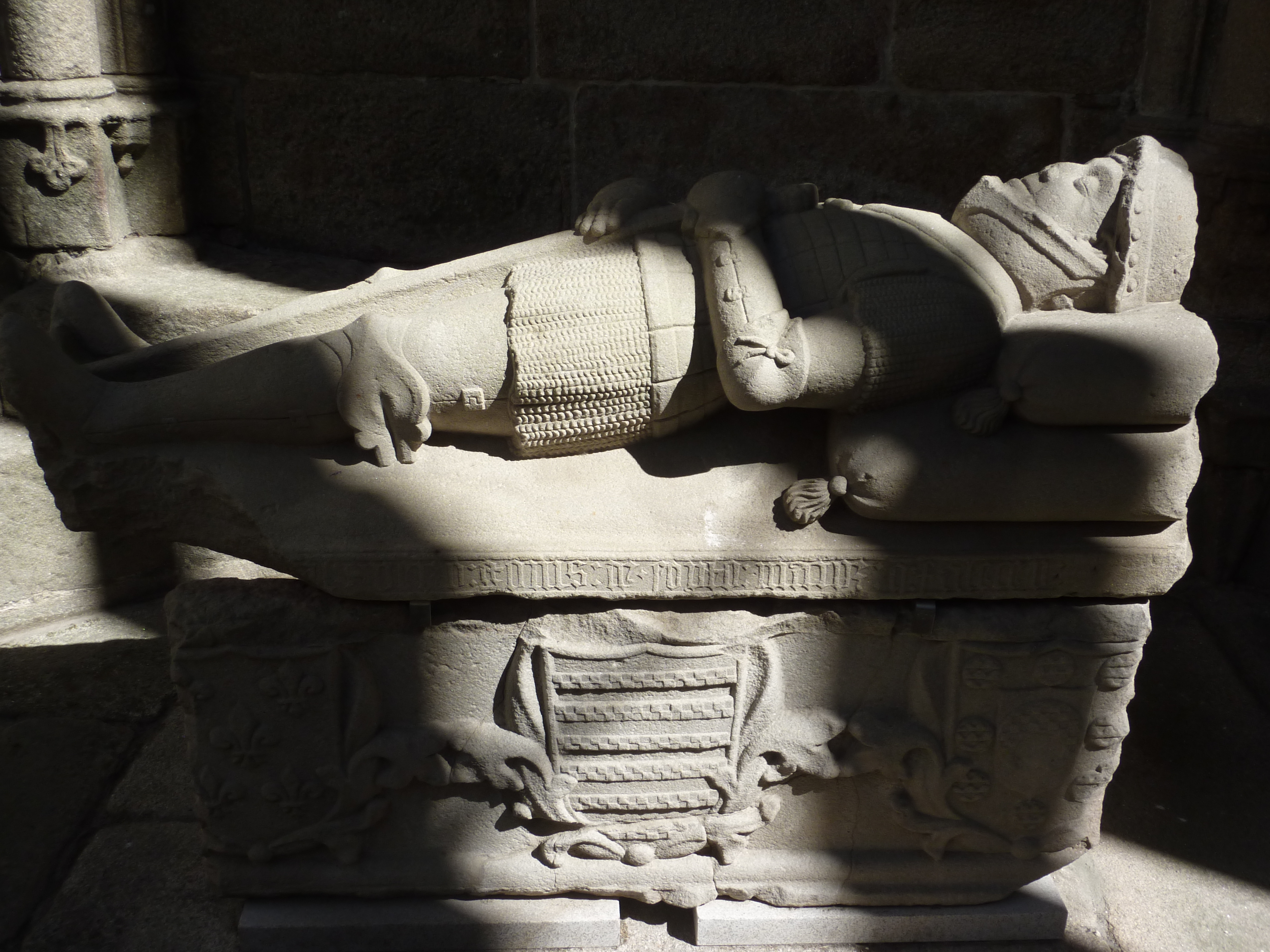 Sepulcher of the knight Sueiro Gomes de Soutomaior. Museo de Pontevedra.